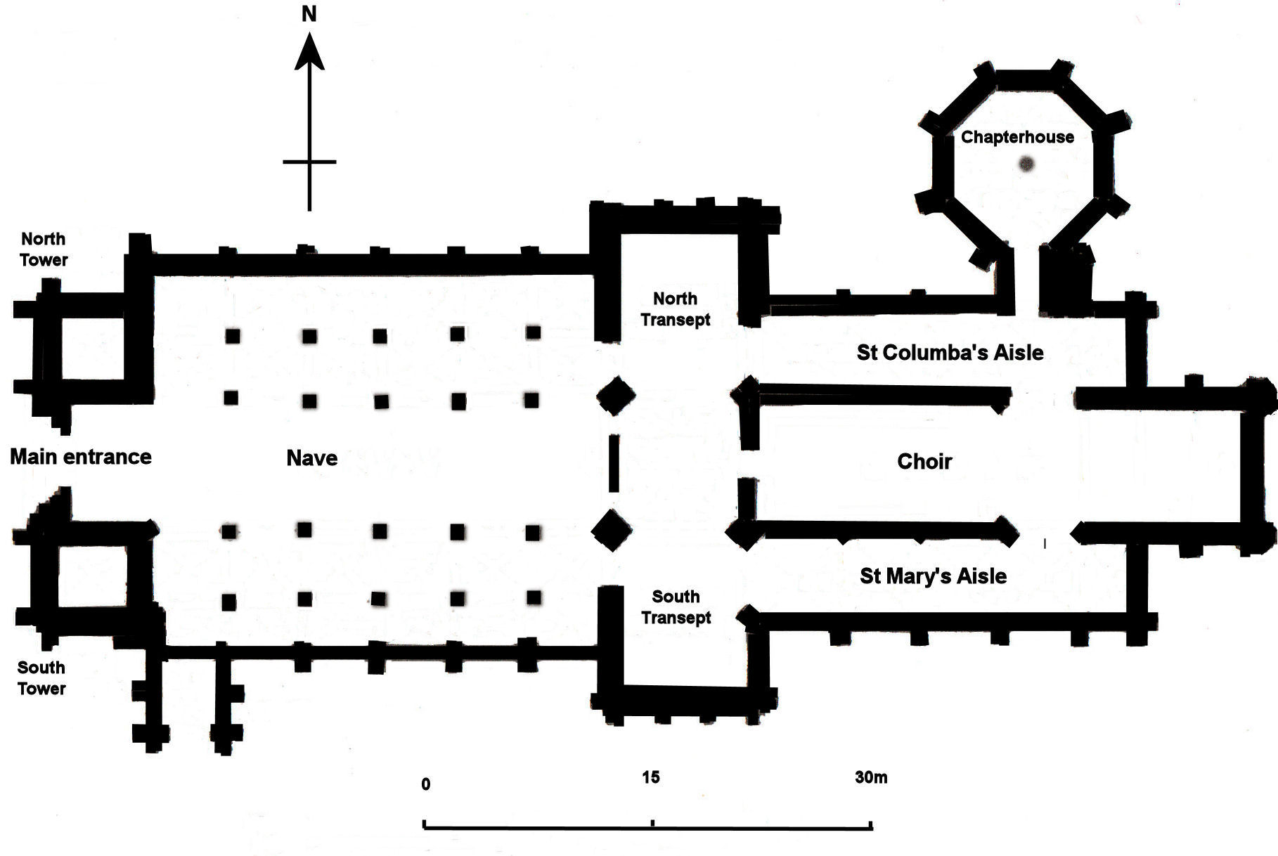 Drawn on Photoshop by Bill Reid / Talk 15:59, 19 March 2007 (UTC)